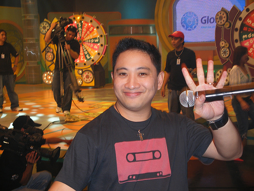 Bitoy in Eat Bulaga. Location: TAPE Studios at GMA Broadway Centrum